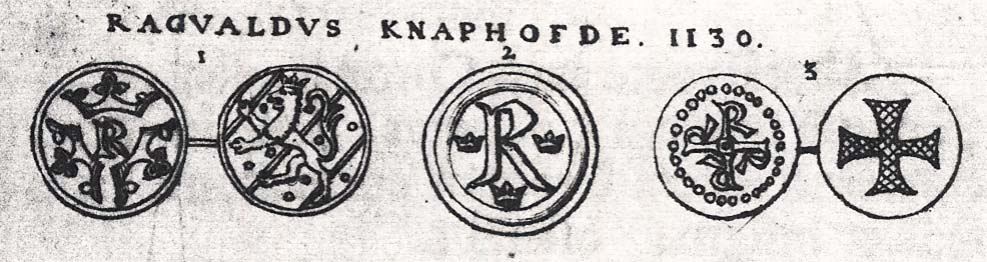 Coins of King Reginald Knobhead of Sweden (Ragnvald Knaphövde)Place: Sweden